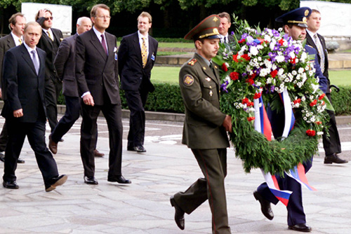 BERLIN. President Vladimir Putin laying a wreath to the monument to the Soviet liberator soldier in Treptow Park.